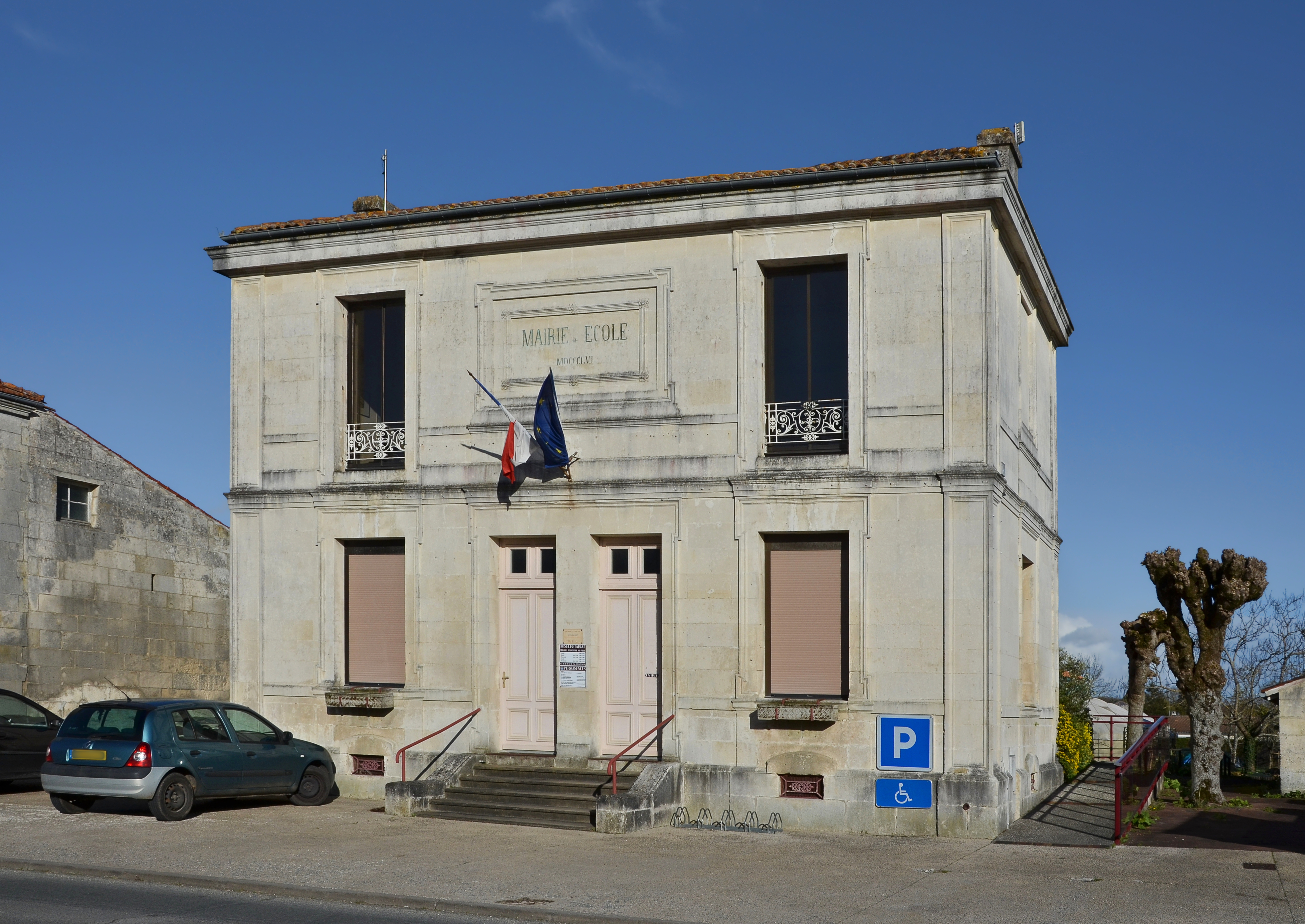 Facade of the town hall, Thénac, Charente-Maritime, France.